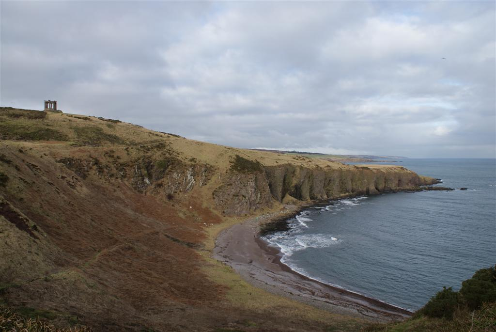 Strathlethan Bay Looking NE along Strathlethan Bay. Stonehaven War Memorial on Black hill is seen to the left of the photo